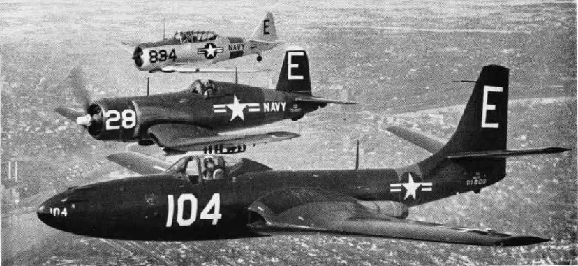 Three aircraft of the Minneapolis U.S. Naval Air Reserve (front to back): a McDonnell FH-1 Phantom, a Vought F4U-1 Corsair, and a North American SNJ Texan in 1951.